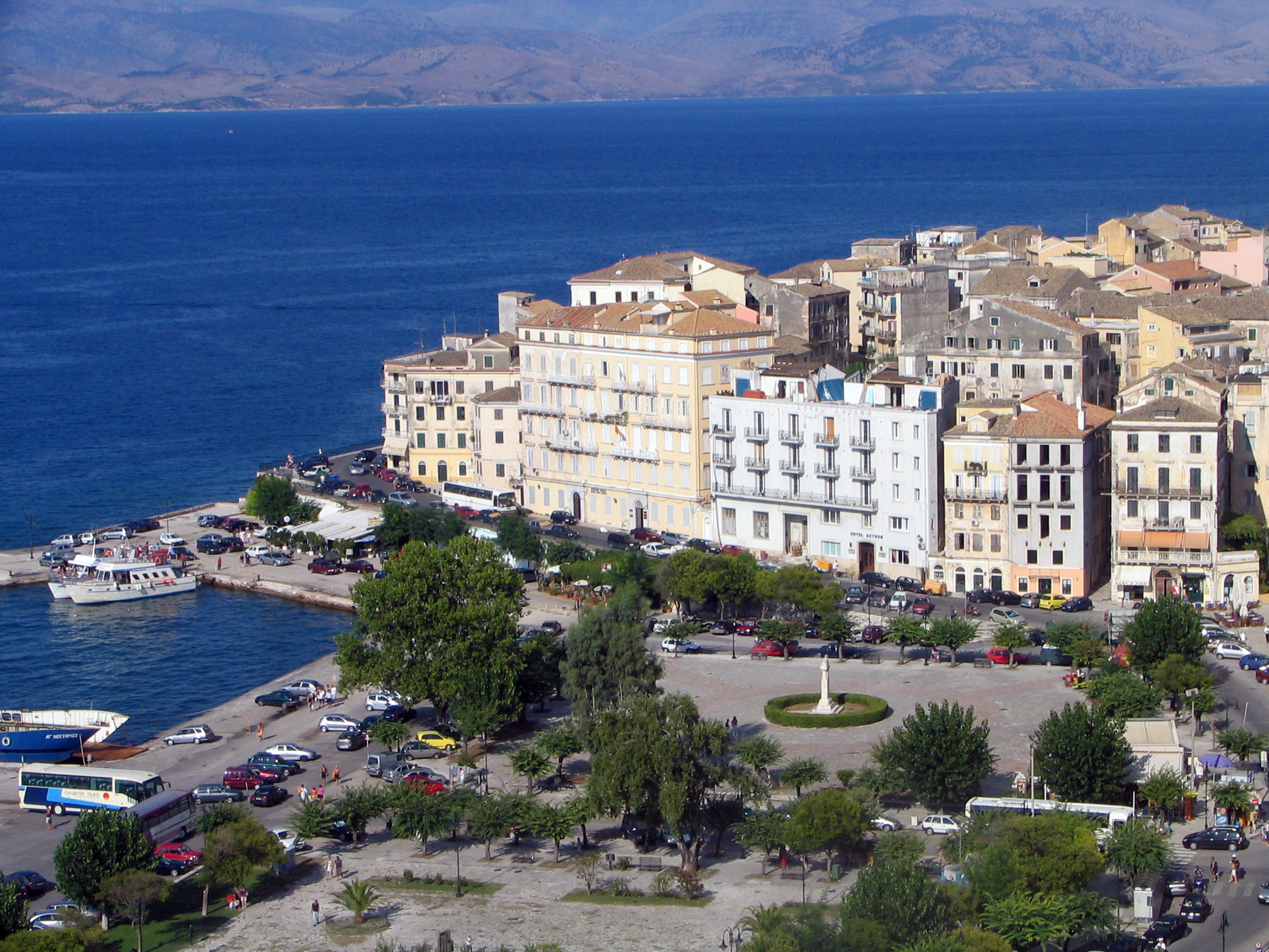 Spilias, Square, Corfu, Greece